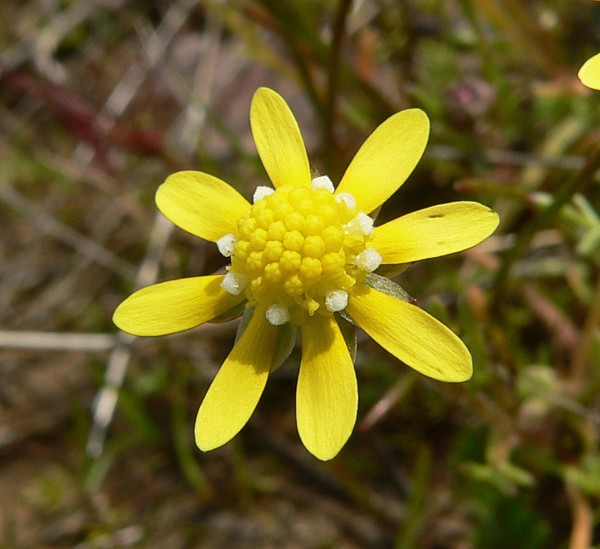 Common blennosperma, yellow carpet, or meadow daisy (Blennosperma nanum) found near Livermore, California.